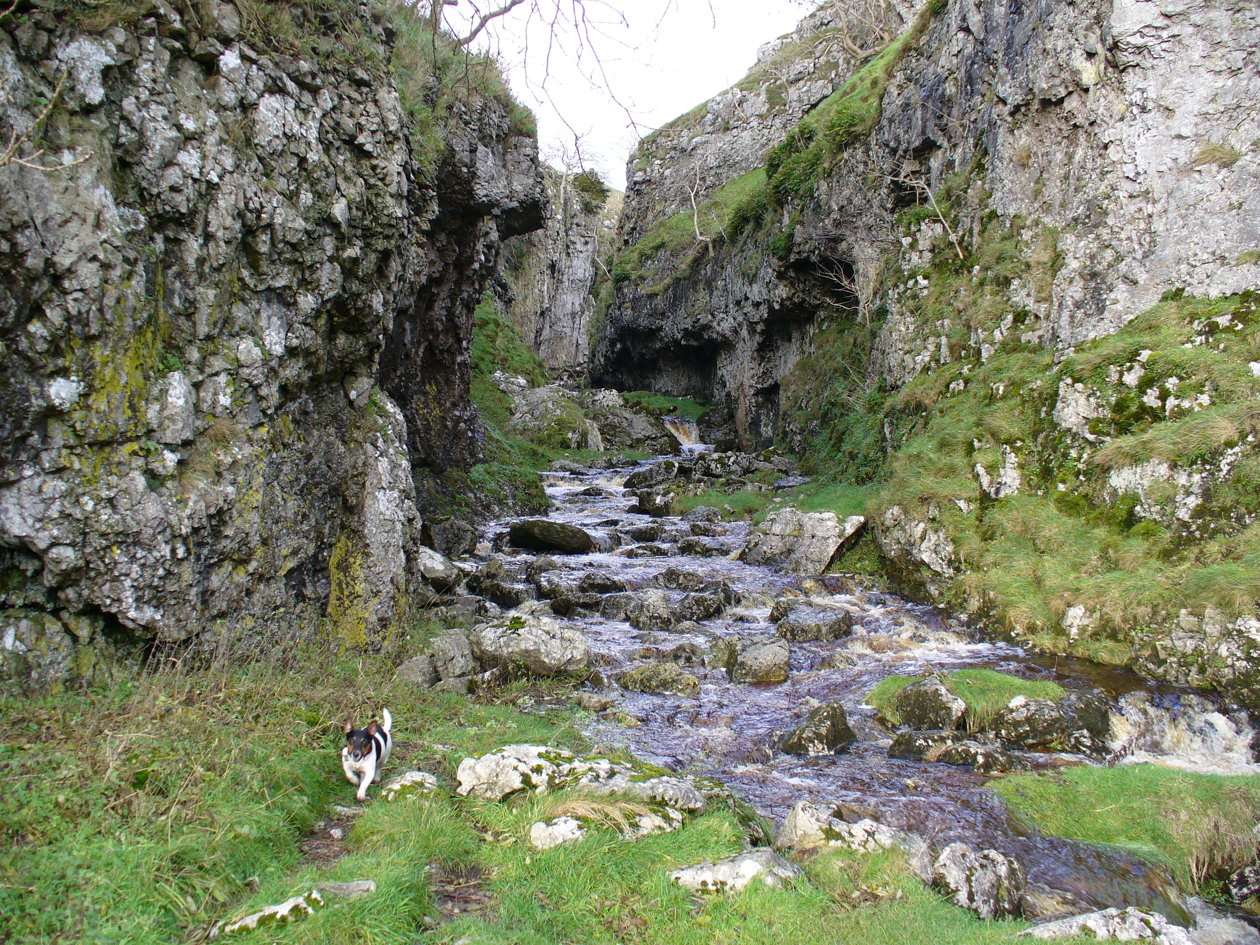 Troller's Gill - a limestone gorge close to Appletreewick in the Yorkshire Dales, UK. A Barghest is visible in the lower left corner.